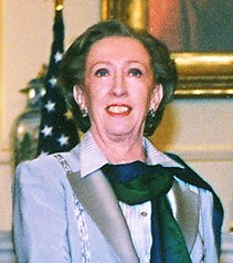 The Right Honorable Margaret Beckett, M.P.